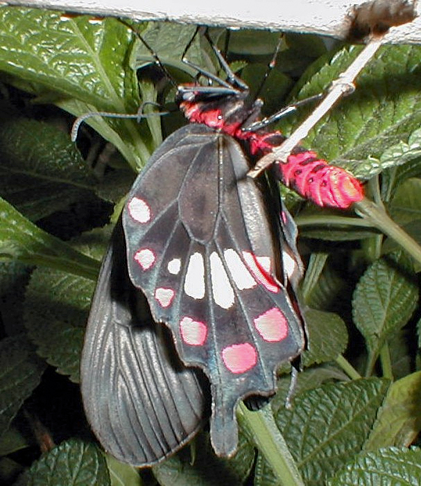 Common Rose (Pachliopta aristolochiae) just emerged.